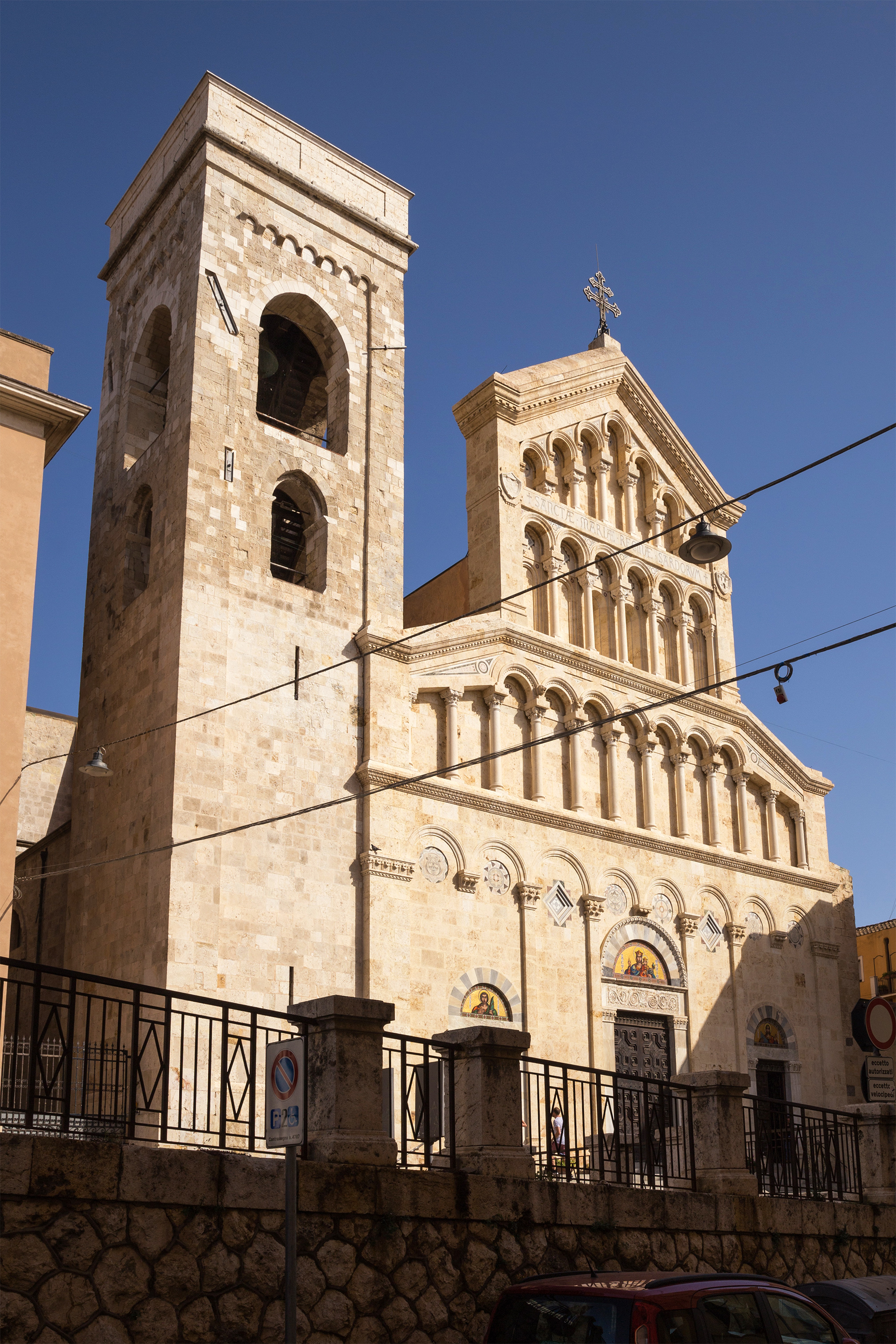 Cagliari Cathedral, façadeEsperanto: Katedralo de Cagliari, fasado